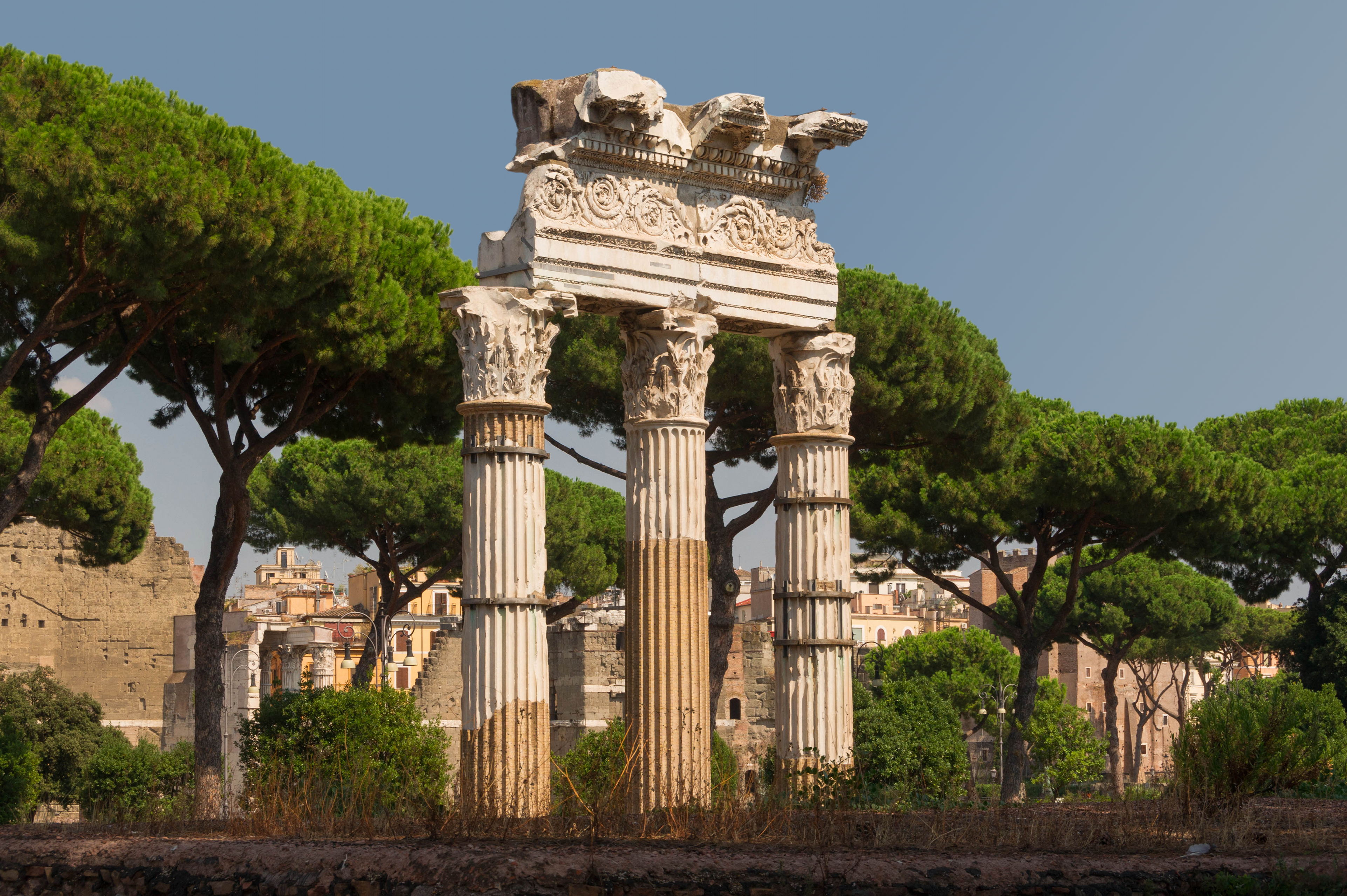 Temple of Venus Genitrix, Forum Iulium, Rome Italy.